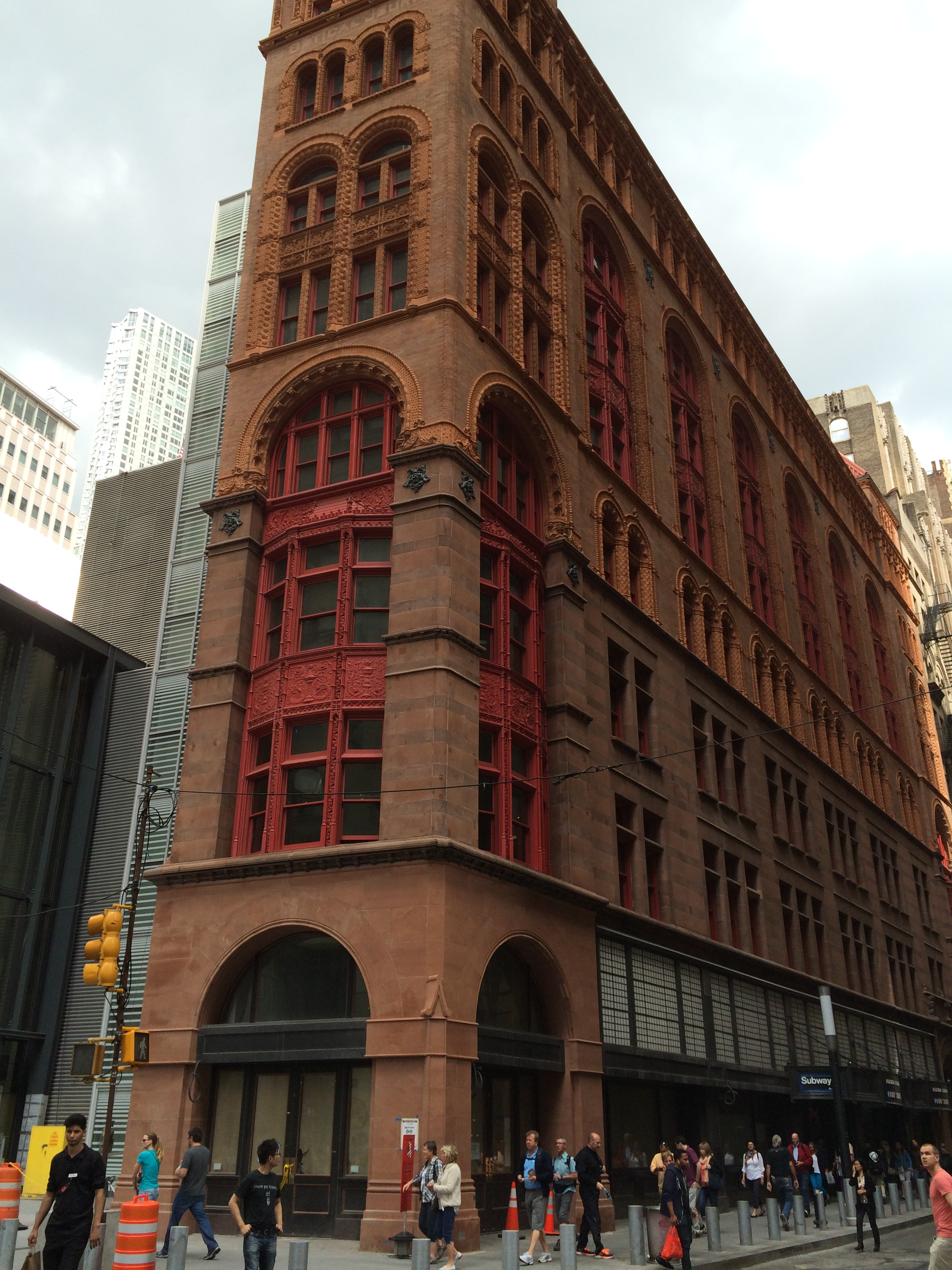 The Corbin Building